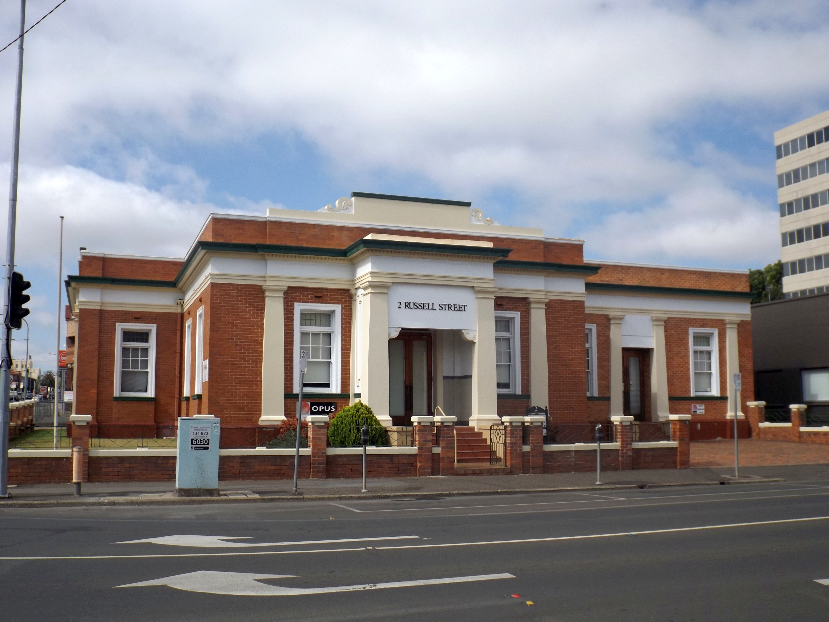 Photo of Toowoomba Permanent Building Society and Russell Street in Toowoomba City, Queensland, Australia.